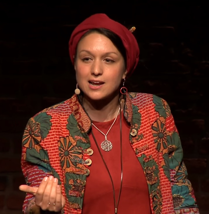 Educator and fairy tale narrator Judith Liberman at Zorlu Performing Arts Center in the 'Write Rules from the Beginning' event sponsored by Orkid and on the #banaba platform. Website: Instagram: Twitter